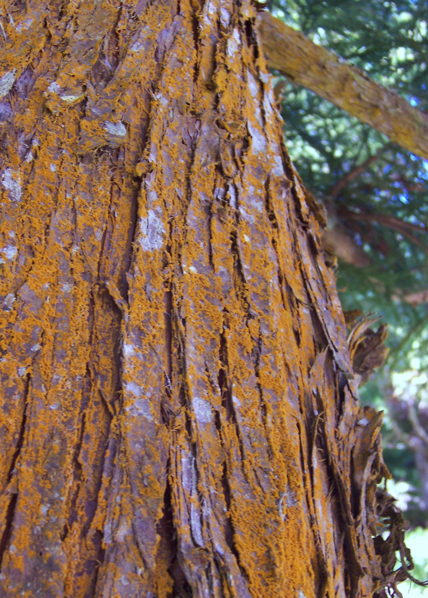 Trentepohlia sp., a filamentous green alga (Trentepohliaceae) on Cryptomeria japonica bark, on Réunion island